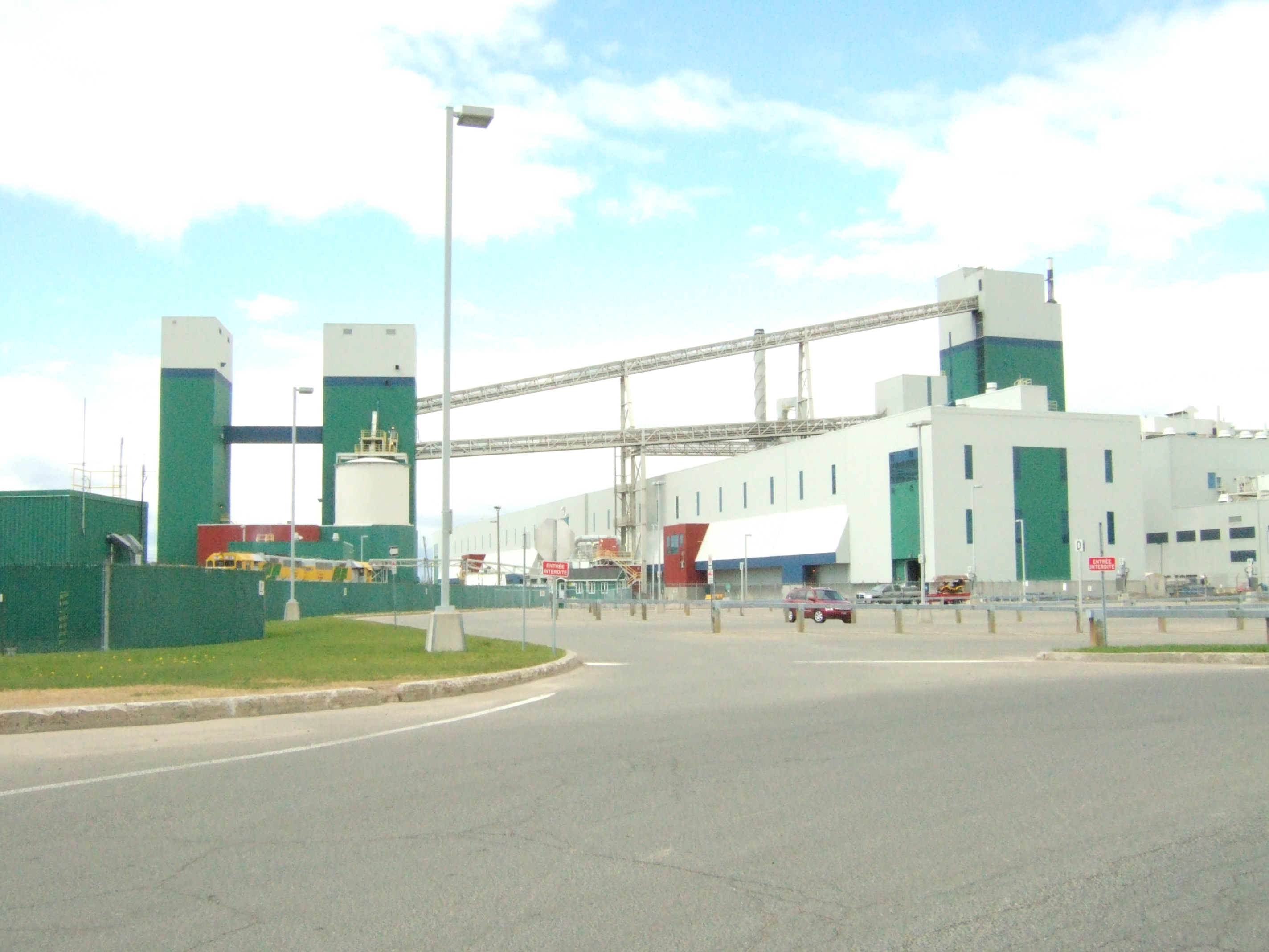 Alcan aluminium factory in Alma, Qc